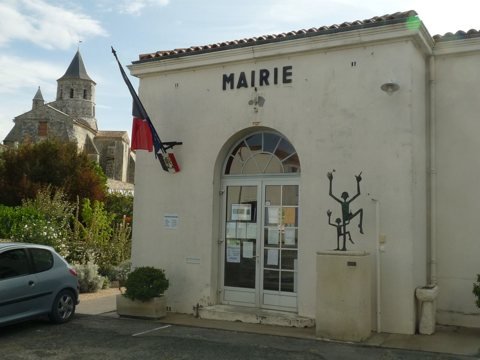 town hall of Arces (Charente-Maritime), SW France